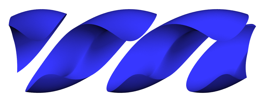 Shape of the cavities (where the liquid flows) between the stator and the rotor in a progressive cavity pump.